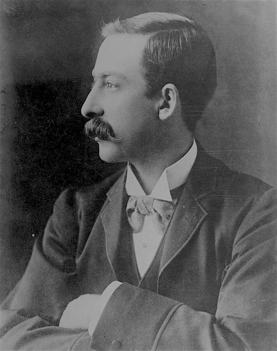 Billy Hughes in 1895, during his time as a member of the New South Wales Legislative Assembly.